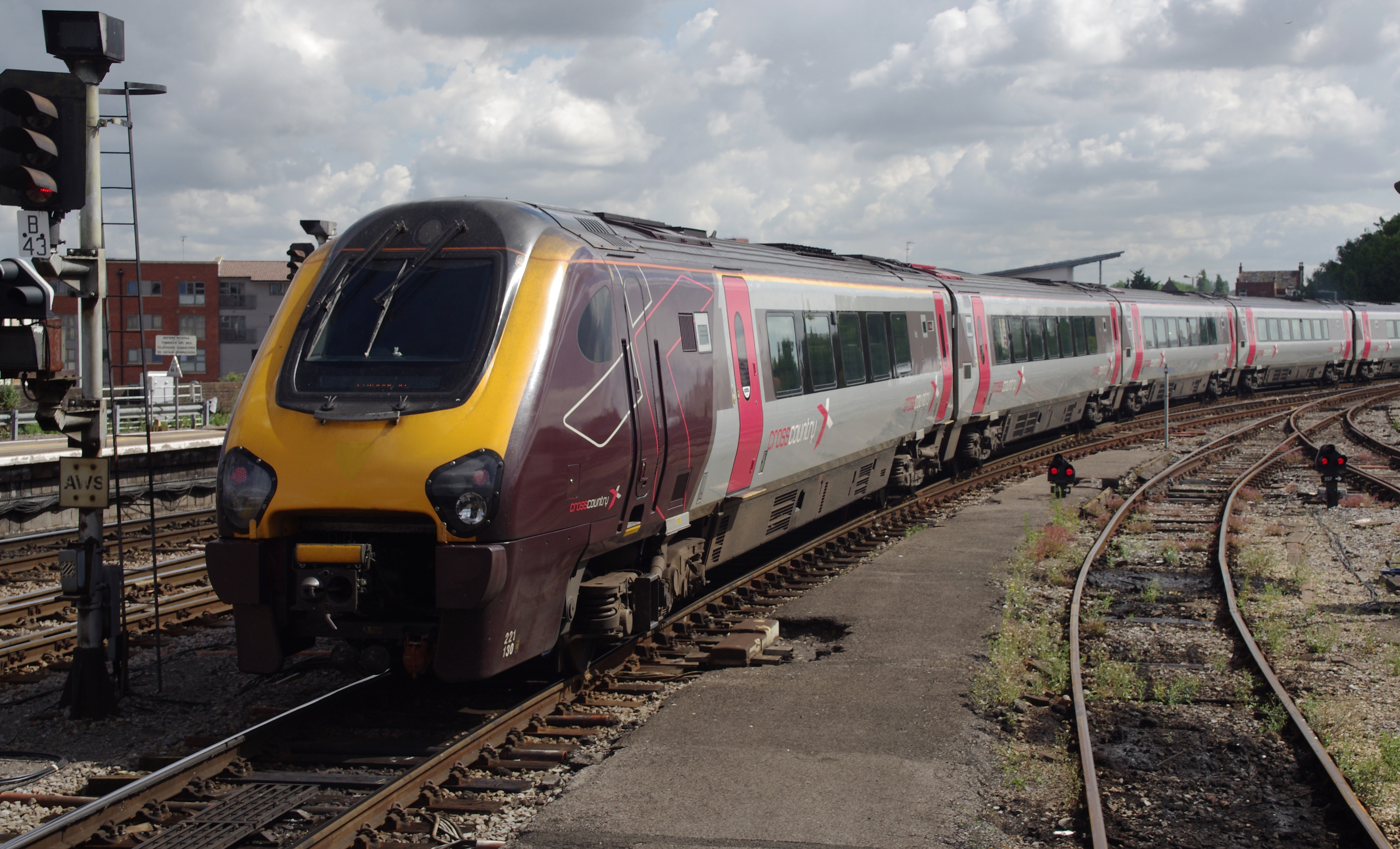 CrossCountry 221130 departs Bristol Temple Meads headed for Edinburgh Waverley.